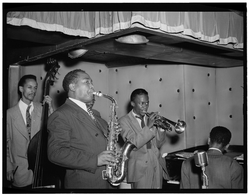 Gottlieb, William P., 1917-, photographer. [Portrait of Charlie Parker, Tommy Potter, Miles Davis, Duke Jordan, and Max Roach, Three Deuces, New York, N.Y., ca. Aug. 1947] 1 negative : b&w ; 3 1/4 x 4 1/4 in. Caption from Down Beat: Parker's back and the Deuces' got him. Yardbird and his band at the Three Deuces the night he returned to 52nd Street. Tommy Potter is the bass man, while Miles Davis is on trumpet. Charlie, reported currently on a health kick, certainly looks well and happy. Notes: Gottlieb Collection Assignment No. 434 Reference print available in Music Division, Library of Congress. Purchase William P. Gottlieb Forms part of: William P. Gottlieb Collection (Library of Congress). In: "Parker playing at the Deuces," Down Beat, v. 14, no. 18 (Aug. 27, 1947), p. 18. Subjects: Parker, Charlie, 1920-1955 Potter, Tommy, 1918- Davis, Miles Jordan, Duke, 1922- Roach, Max, 1924- Jazz musicians--1940-1950. Saxophonists--1940-1950. Double bassists--1940-1950. Trumpet players--1940-1950. Fifty-second Street (New York, N.Y.)--1940-1950. Three Deuces Format: Portrait photographs--1940-1950. Group portraits--1940-1950. Film negatives--1940-1950. Rights Info: Mr. Gottlieb has dedicated these works to the public domain, but rights of privacy and publicity may apply. Repository: (negative) Library of Congress, Prints & Photographs Division, Washington D.C. 20540 USA, (reference print) Library of Congress, Music Division, Washington D.C. 20540 USA, Part Of: William P. Gottlieb Collection (DLC) 99-401005 General information about the Gottlieb Collection is available at Persistent URL: Call Number: LC-GLB23- 0685 This work is from the William P. Gottlieb collection at the Library of Congress. Rights and restrictions.In accordance with the wishes of William Gottlieb, the photographs in this collection entered into the public domain on February 16, 2010.